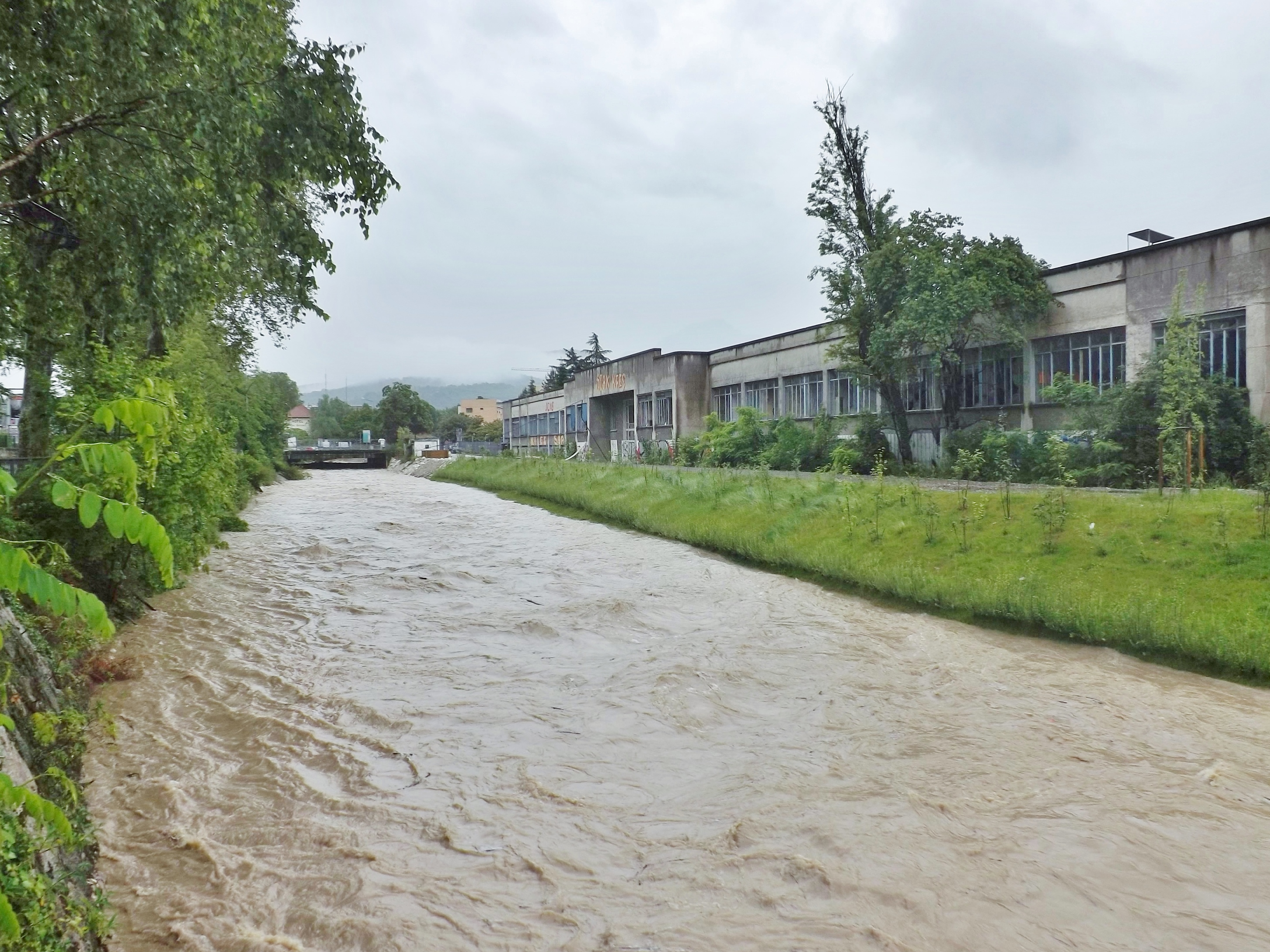 Sight of the Leysse river which turned into a mountain torrent after long rainfalls, passing in Chambéry, Savoie, France.